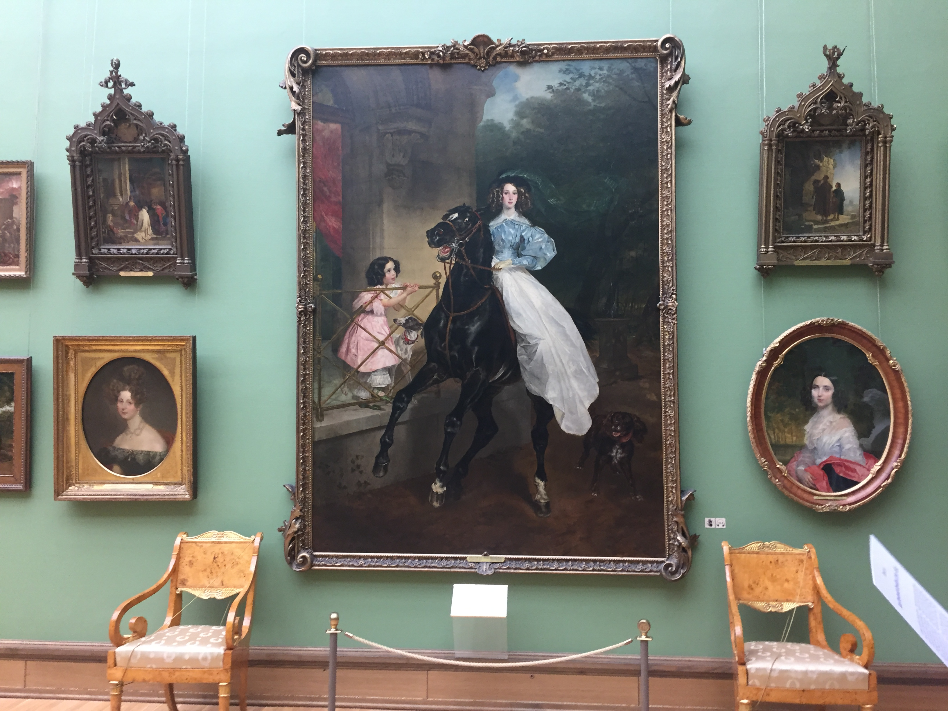 "A horsewomen" (painting by Karl Briullov, 1832) in the State Tretyakov Gallery